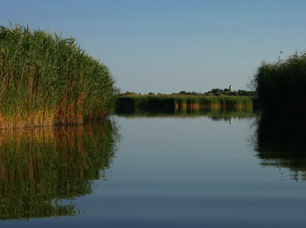 View from the middle of Lake Velencei (Hungary), the steeple of Dinnyés is in the background